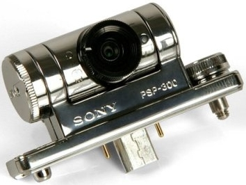 This is a picture I took of a PSP Go!Cam image that no one has put up yet on wikipedia.